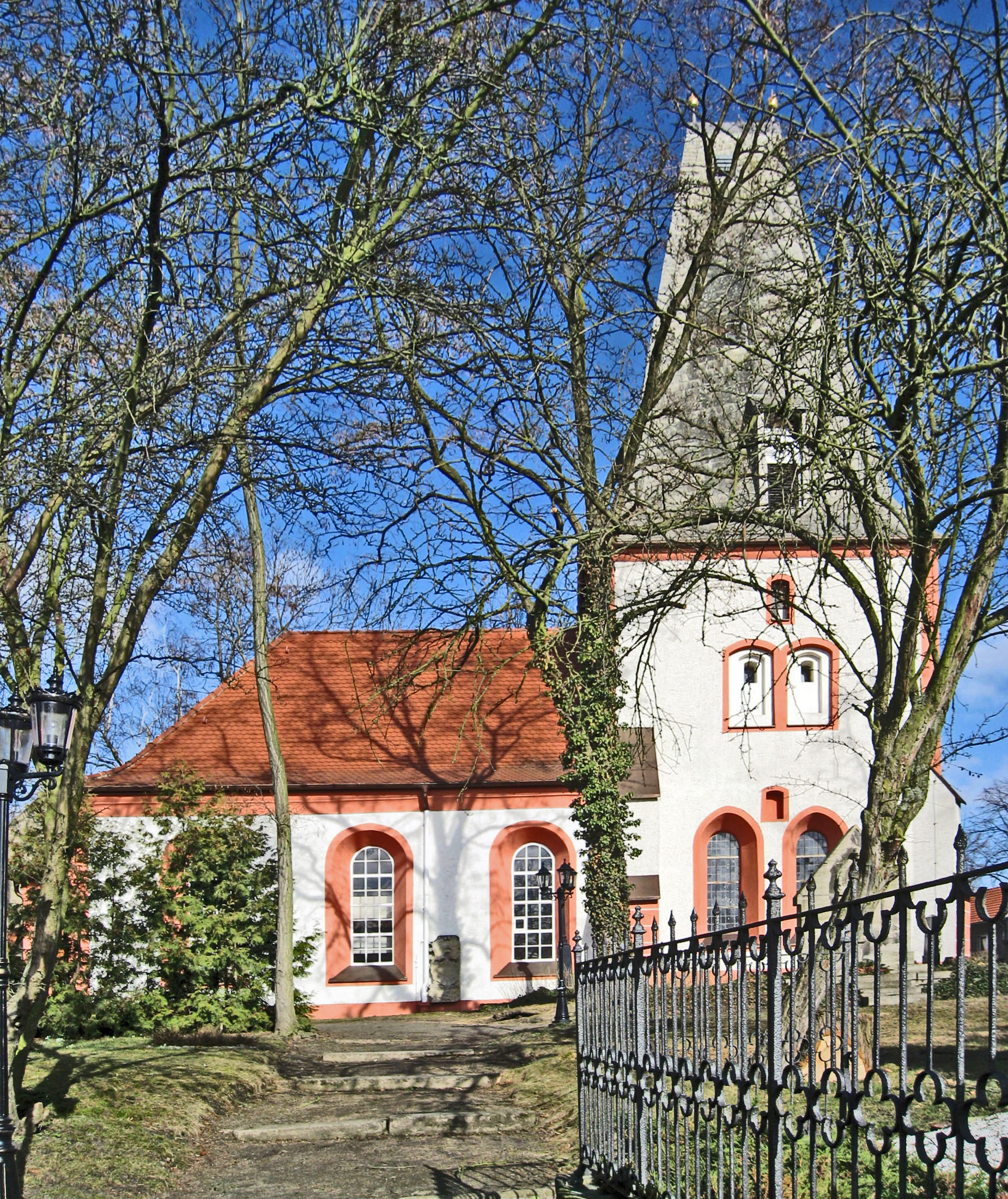 Church Leipzig-Wiederitzsch, Zur Schule